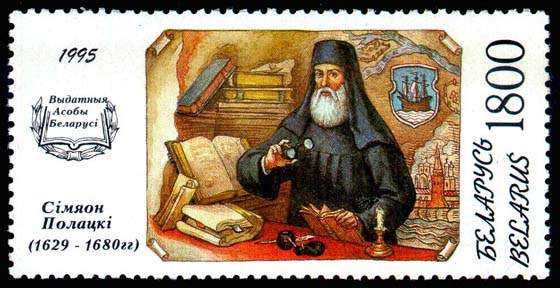 Stamp of Belarus